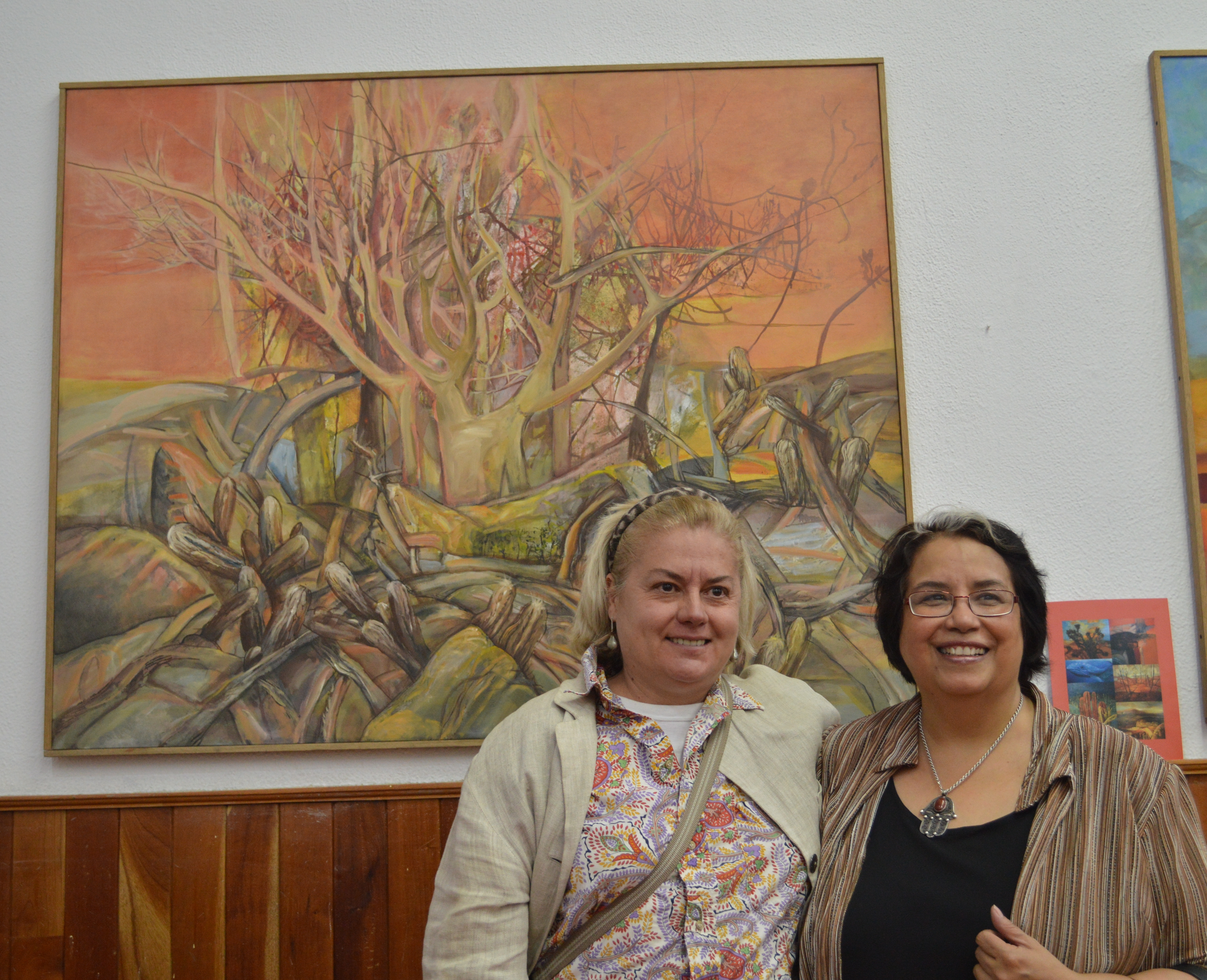 Silvia Barbescu (one of her works in the background) and Lilia Cardenas at the Mujeres en el Arte exhibit at the Casa de Coahuila in Mexico City